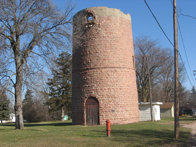 Historic Dell Rapids Watertower in Dell Rapids, South Dakota, USA.